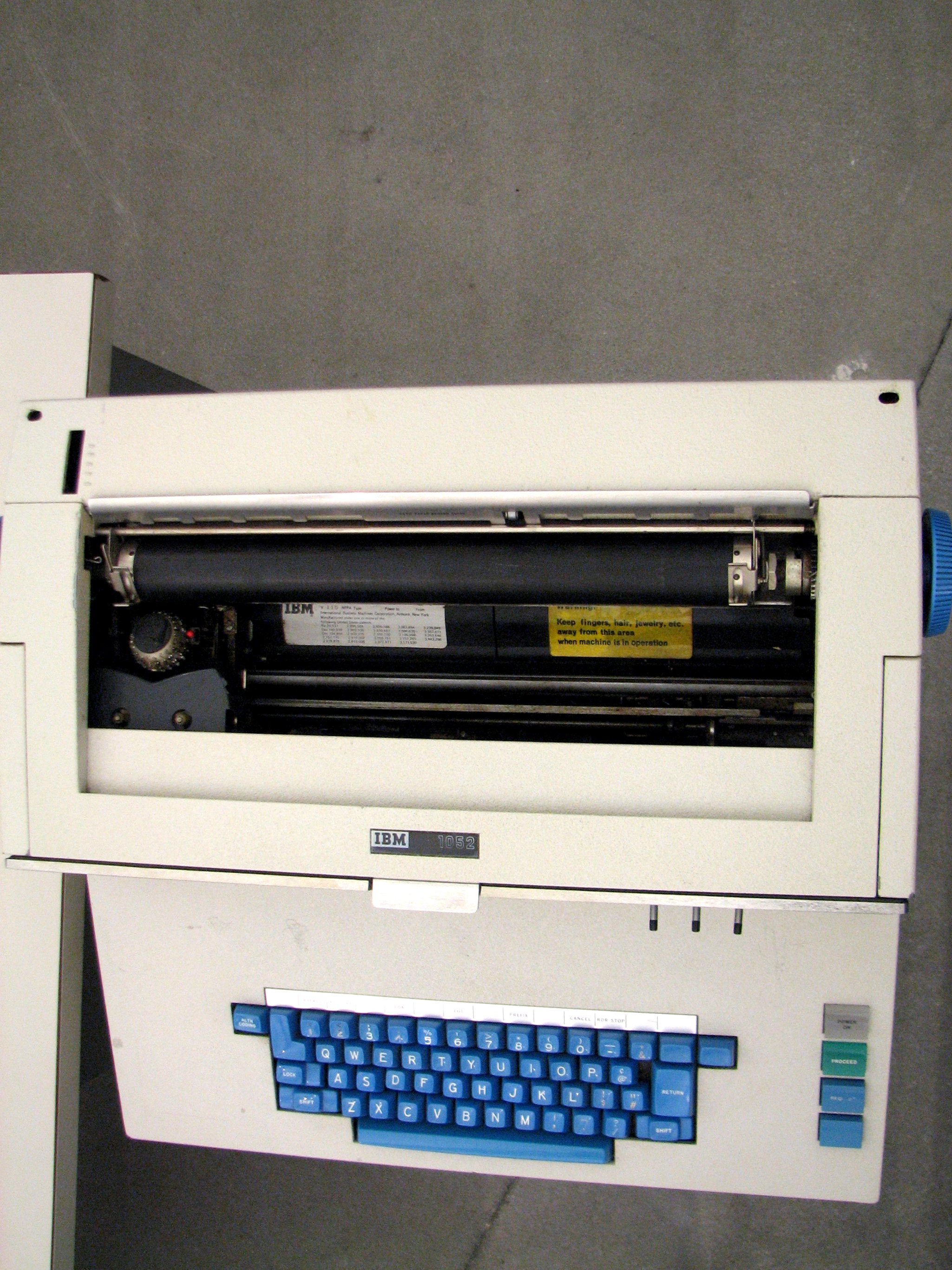 IBM 1050 teleprinter machine interface for use with System/360 model 30 mainframe.